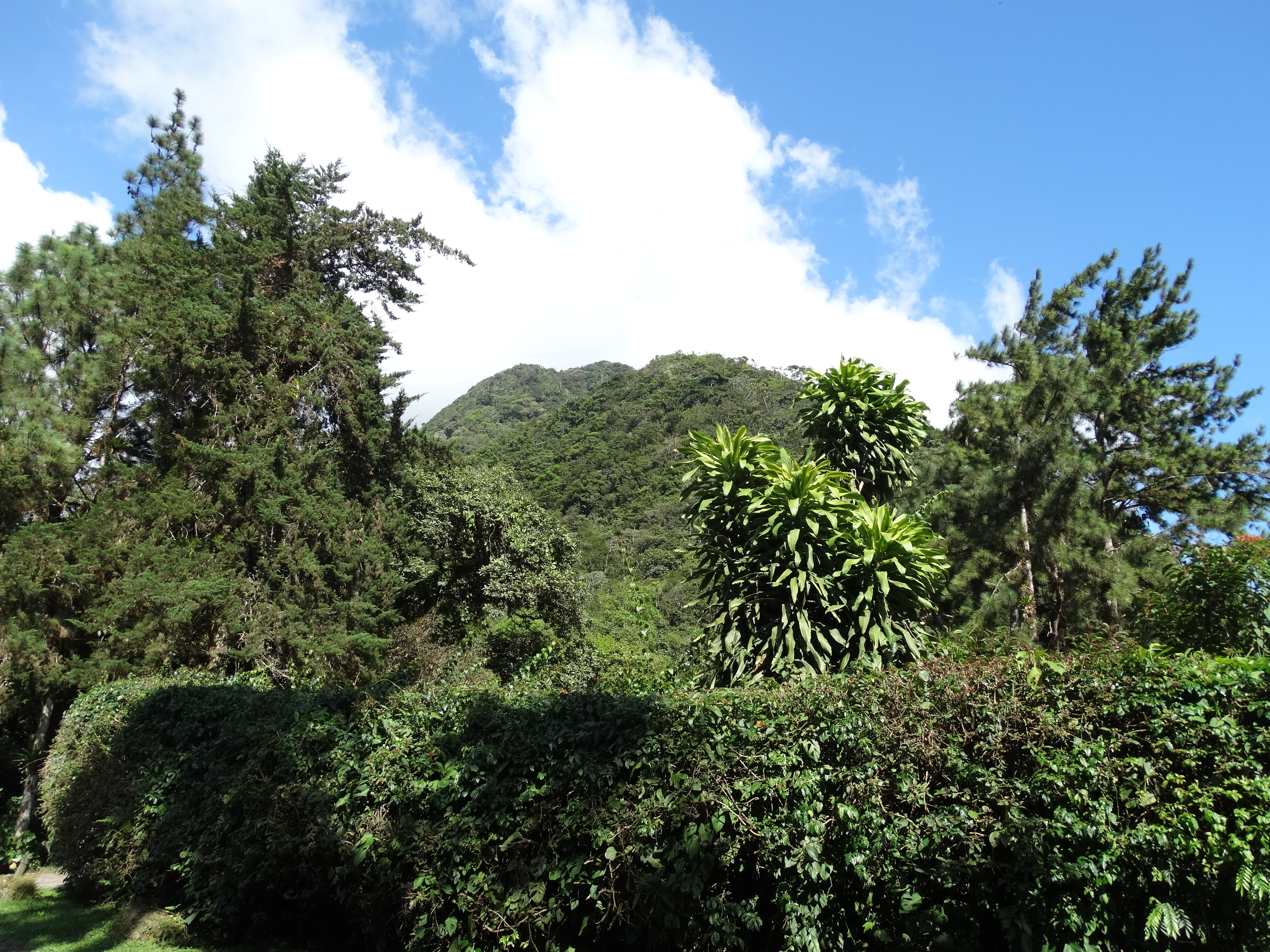 Scenery in El Valle de Anton - Cocle Province - Panama.